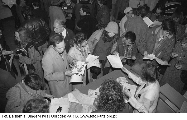 Tydzień Sumienia w Polsce